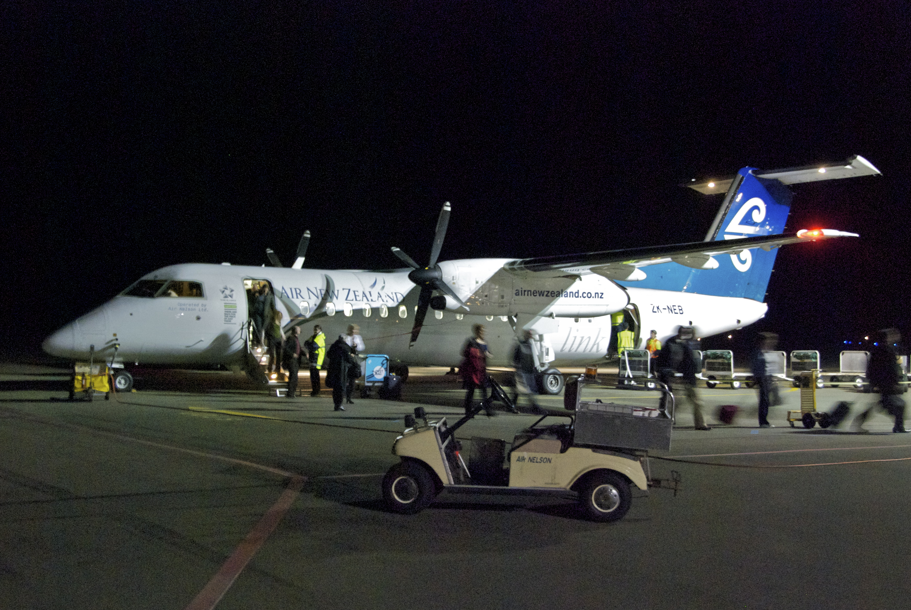 Air New Zealand Link DHC-8-311Q Dash 8; ZK-NEB@NEL;19.07.2012/663ai